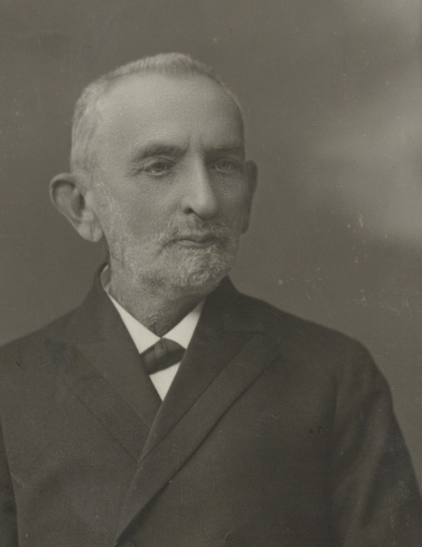 Simon Judah Stanislavsky